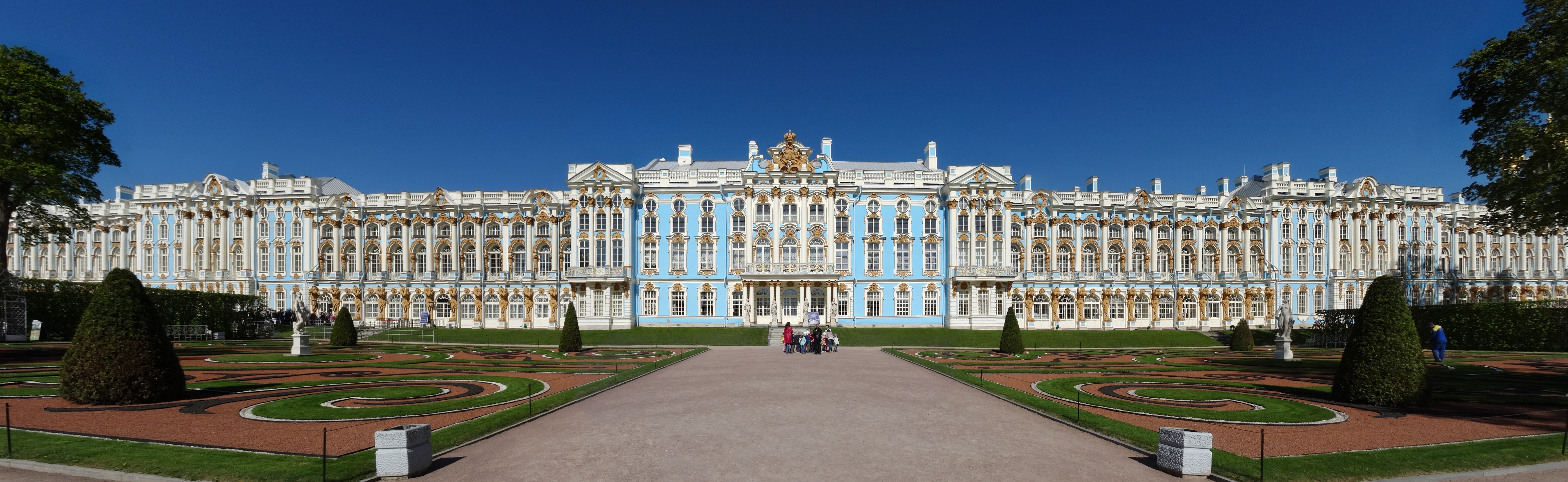 The Poto shows the Catherine Palace in Pushkin, Saint Petersburg. Photographed from the side of the park.